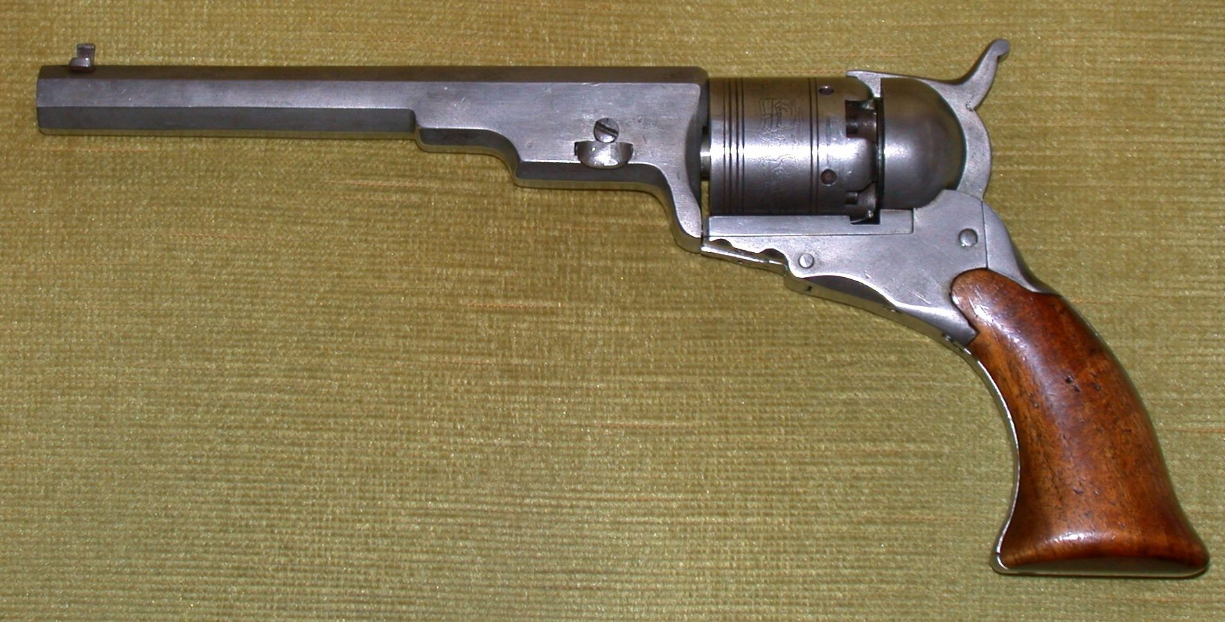 Copy of a Colt Paterson Texas Model